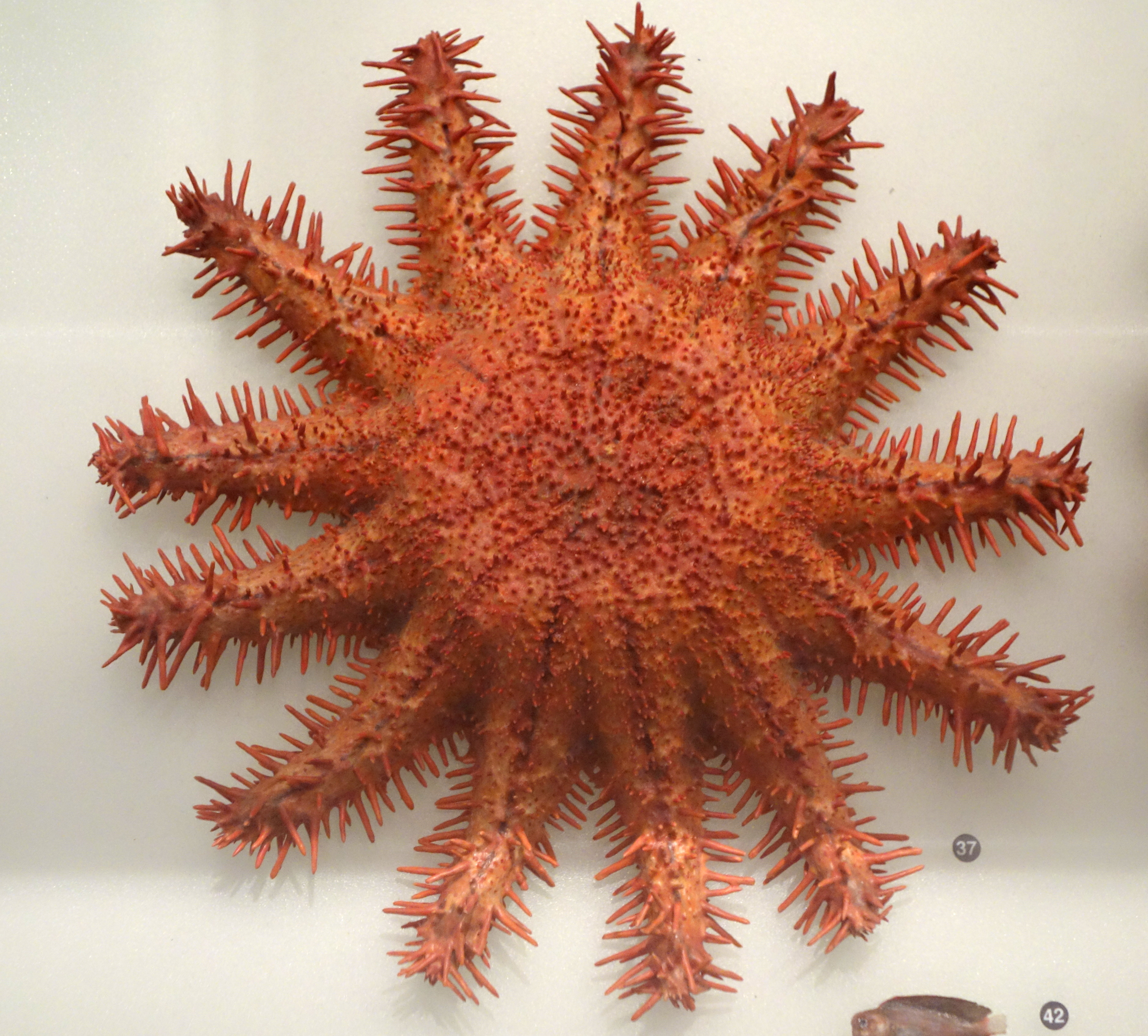 Exhibit in the National Museum of Nature and Science, Tokyo, Japan.